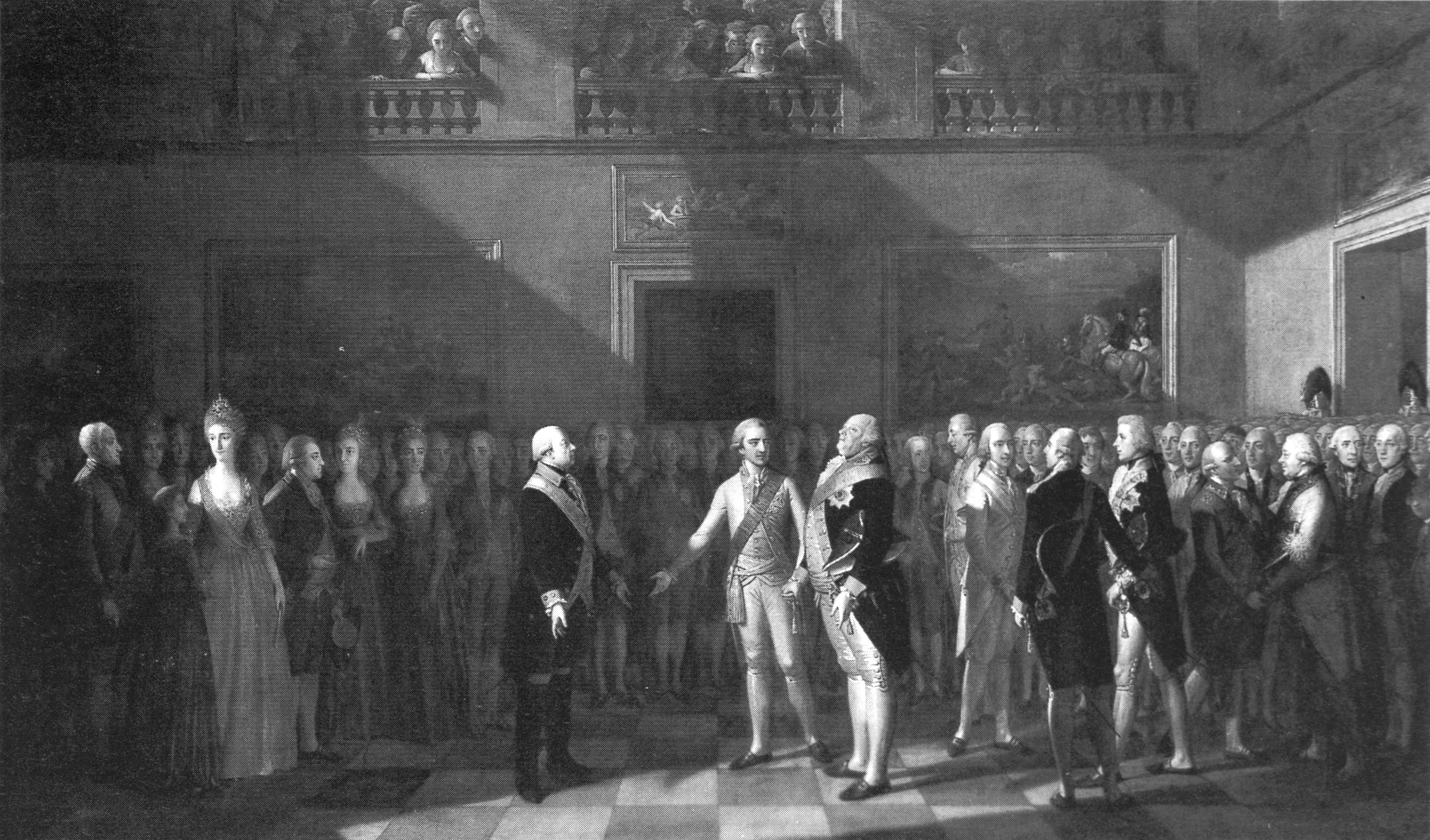 Declaration of Pillnitz of 1791